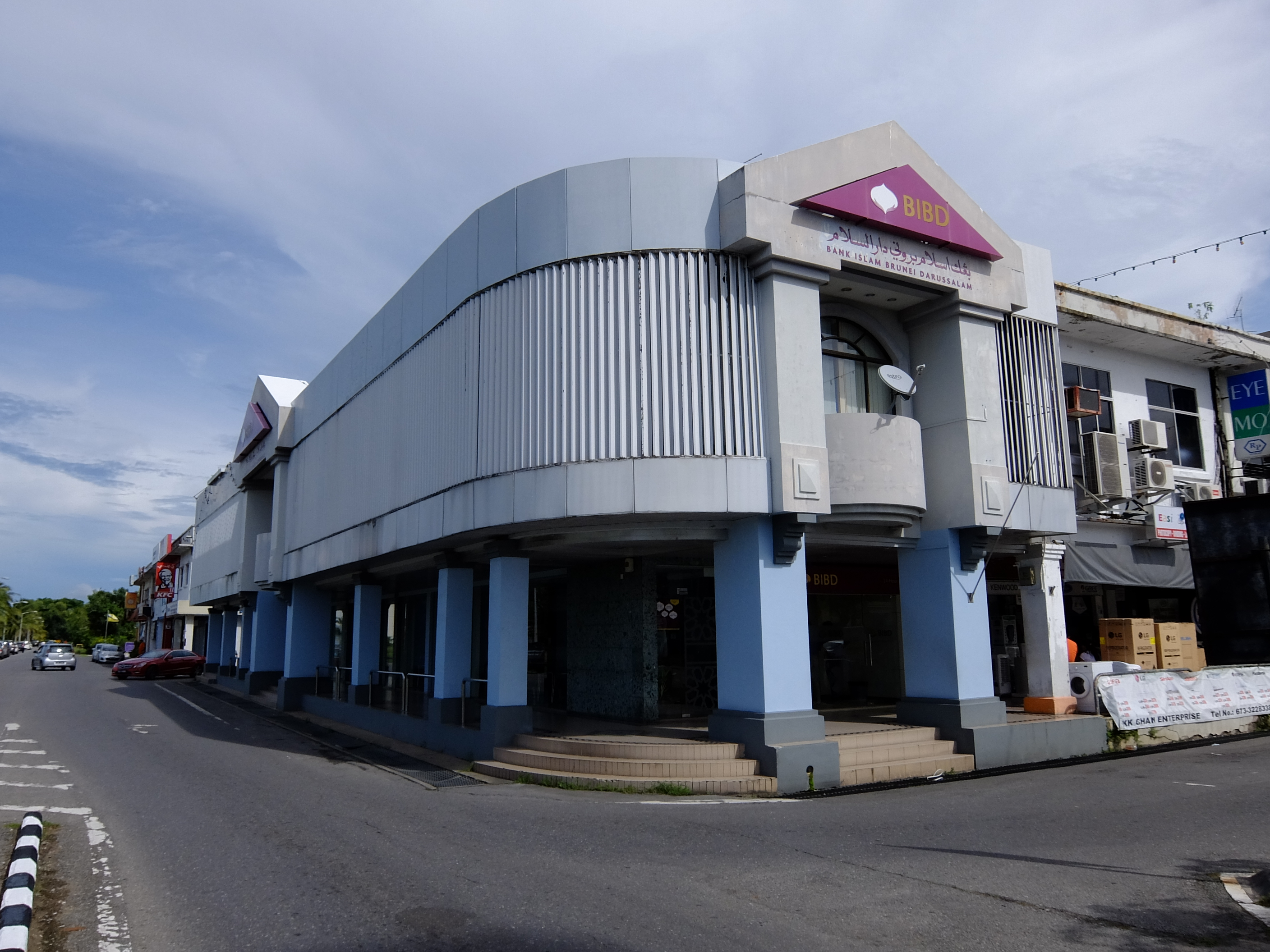 Bank Islam Brunei Darussalam, Seria, Belait, Brunei